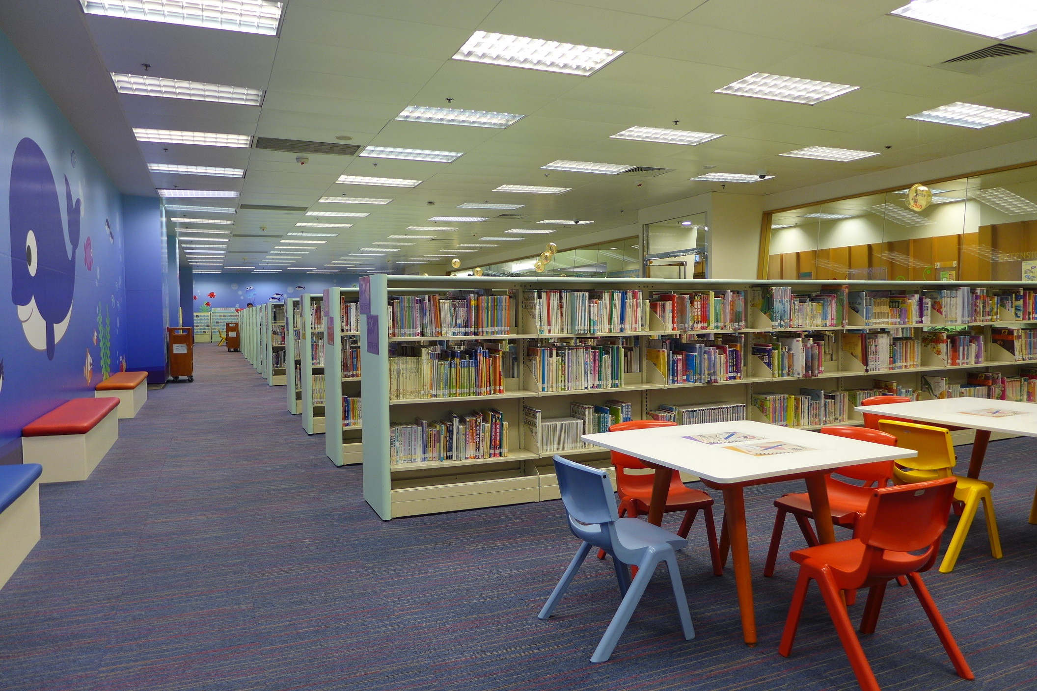 Fanling Public Library Children Library